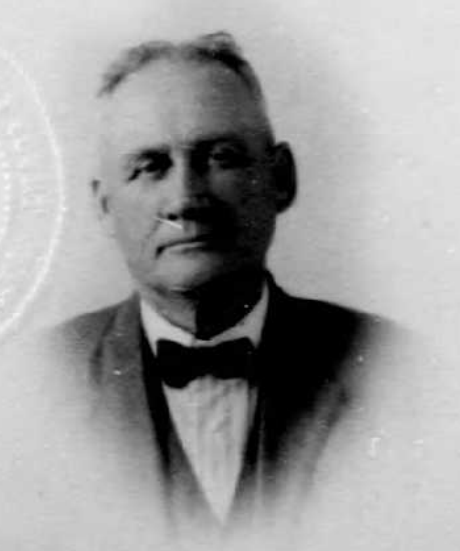 Photograph of Arizona architect James Miller Creighton